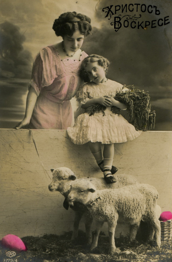 Old Russian Easter Postcard